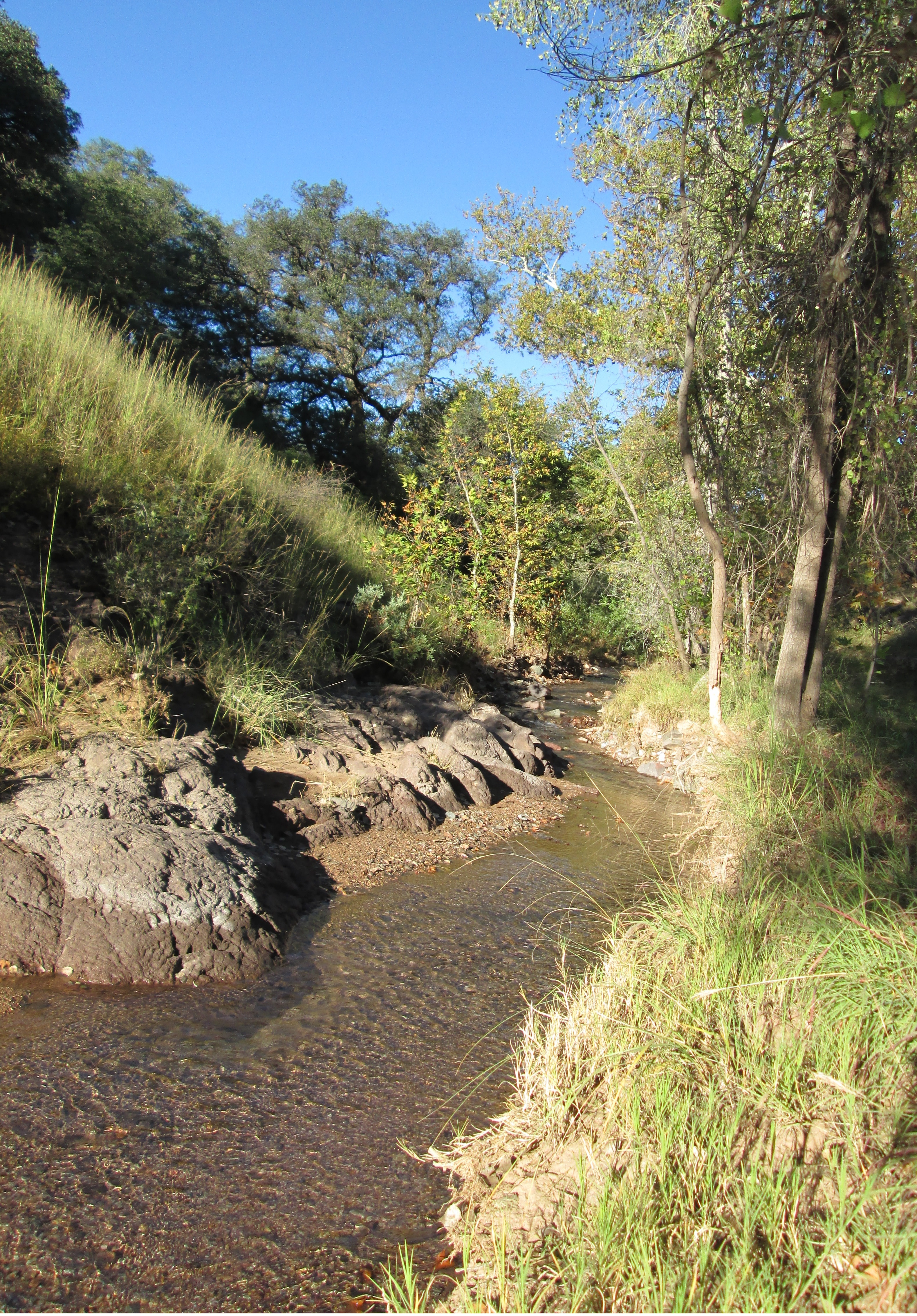 Harshaw Creek, facing upstream. Northeast of Harshaw, Arizona.